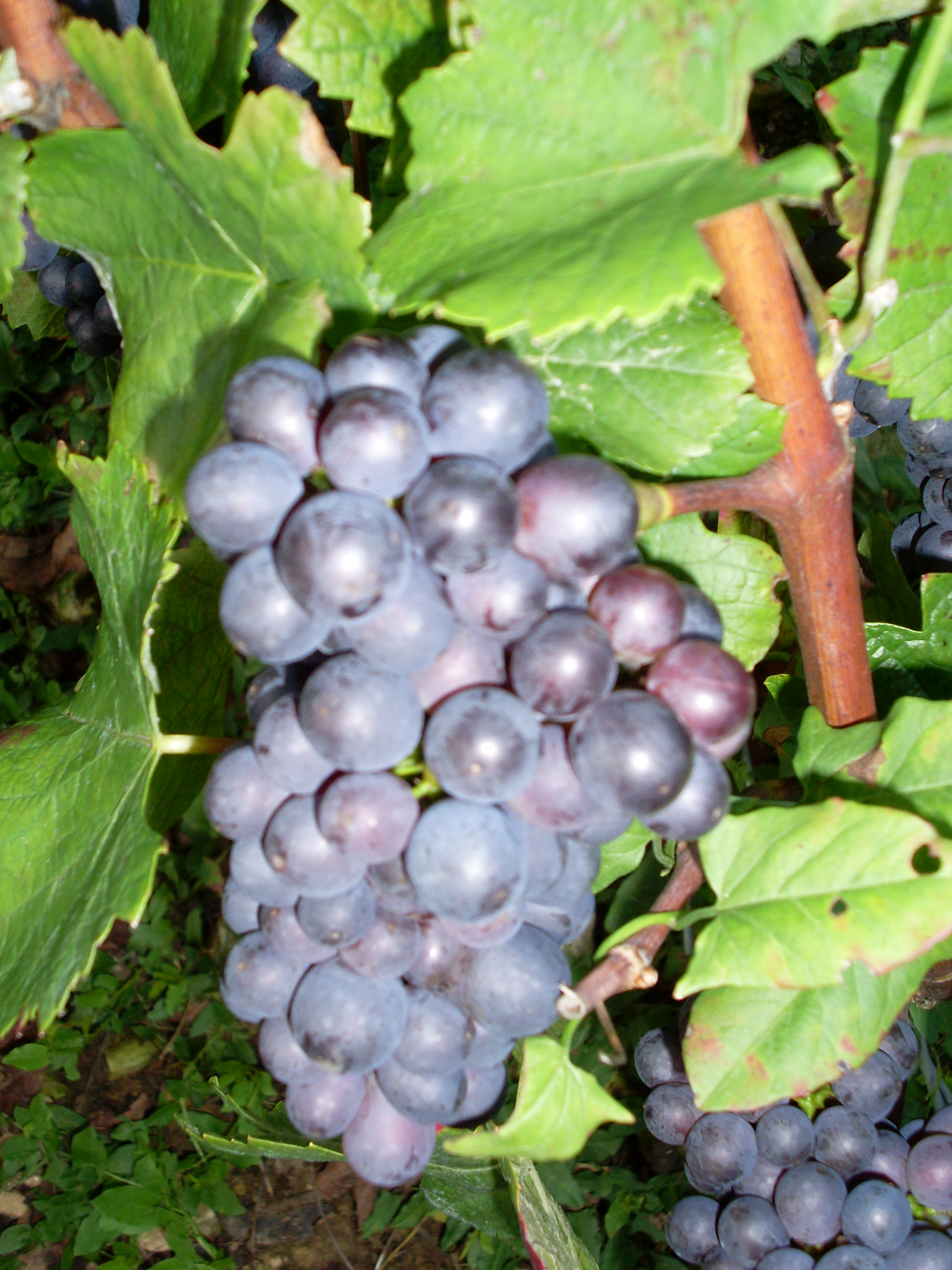 Pinot noir growing in the French wine region of Burgundy